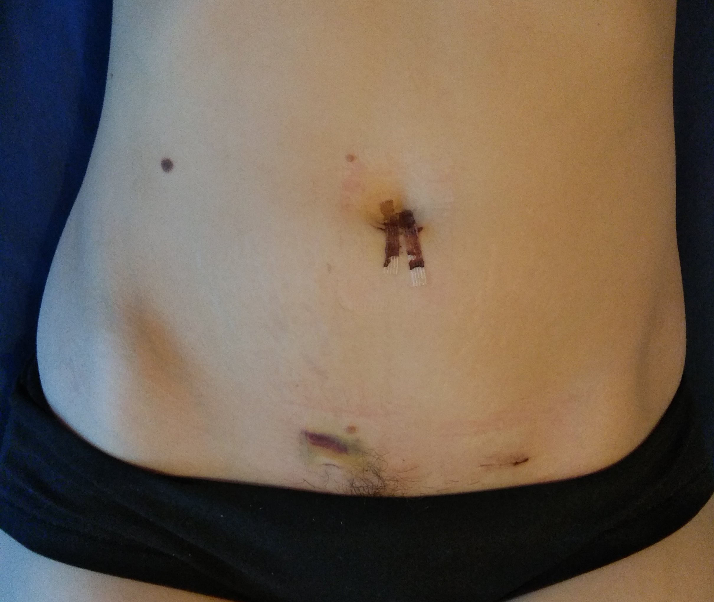 This picture shows the belly of a 37-year-old woman, ten days after her appendix was removed in a minimally invasive surgery.